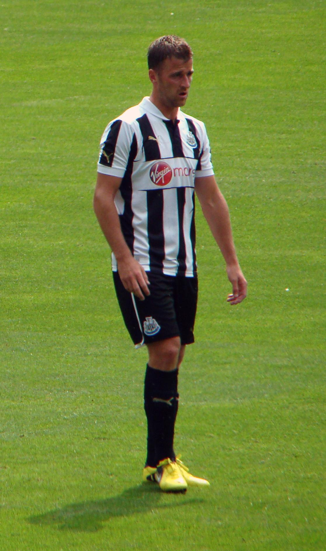 Ryan Taylor v Cardiff